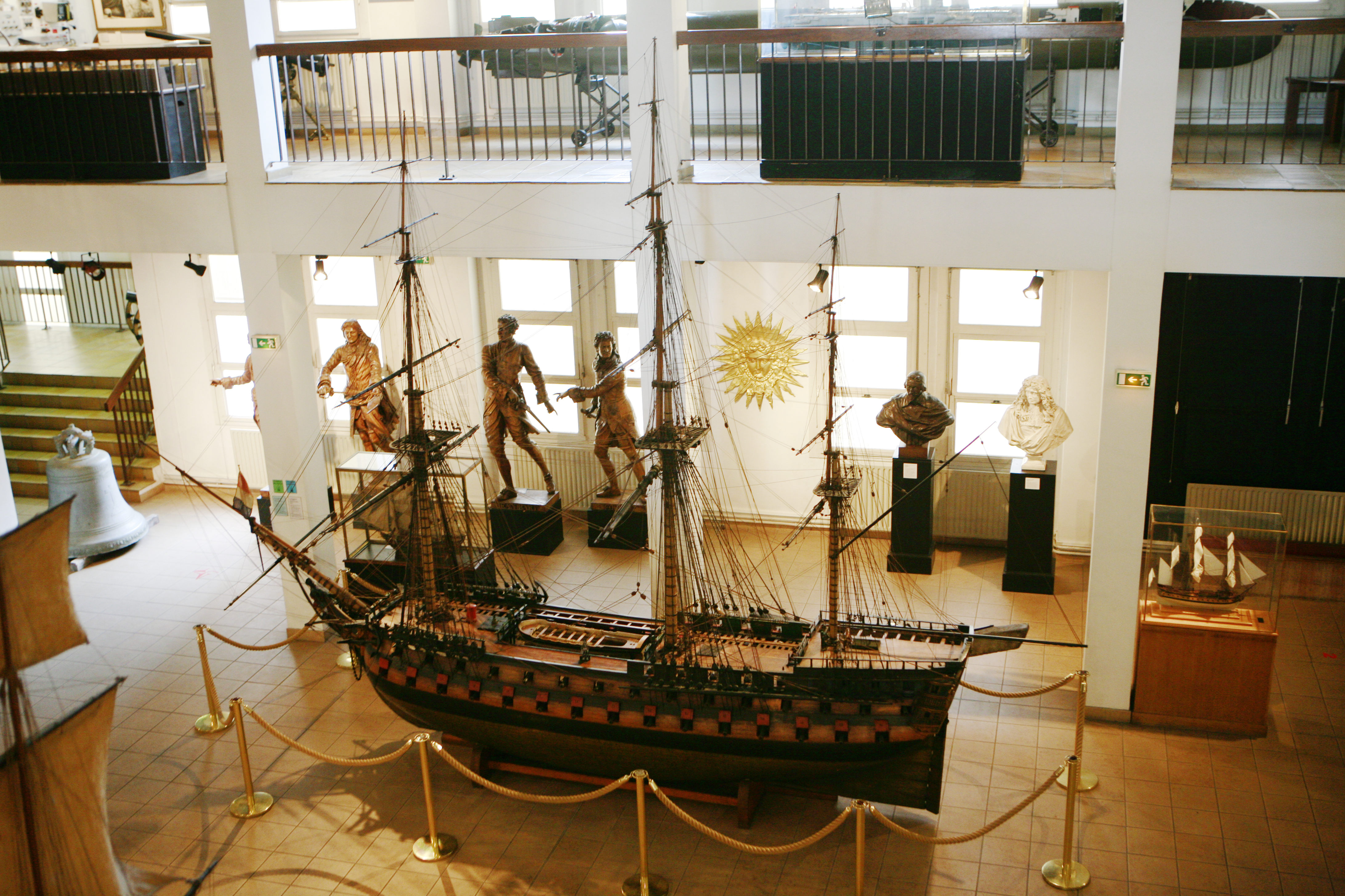 Model of the Duquesne (1787-1803), a 74-gun ship of the line of the French Navy. Model on display at Toulon naval museum. Made in 1788, anonymous, accession number 13 MG 30.